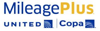 New Logo